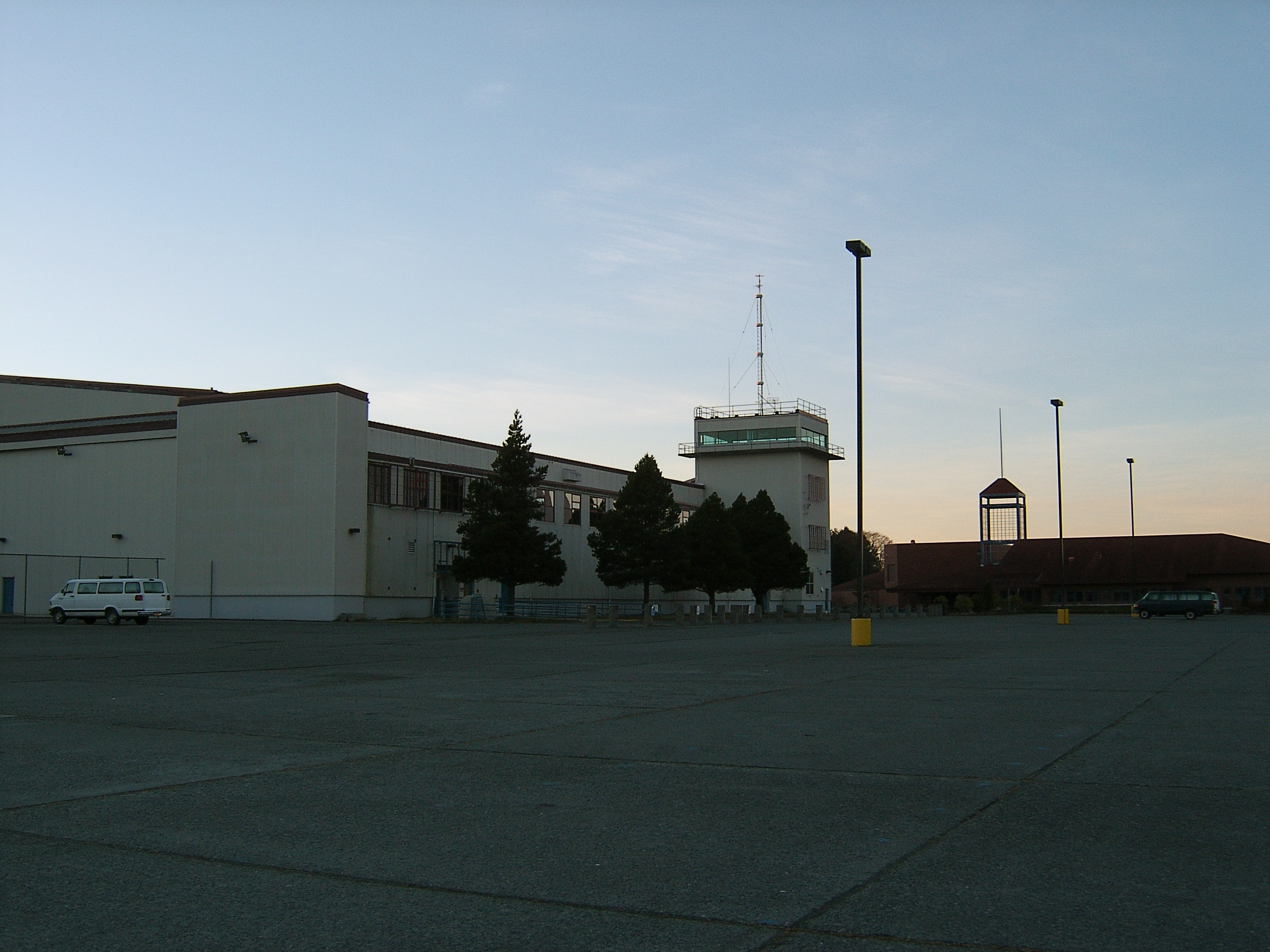 Mount Edgecumbe High School